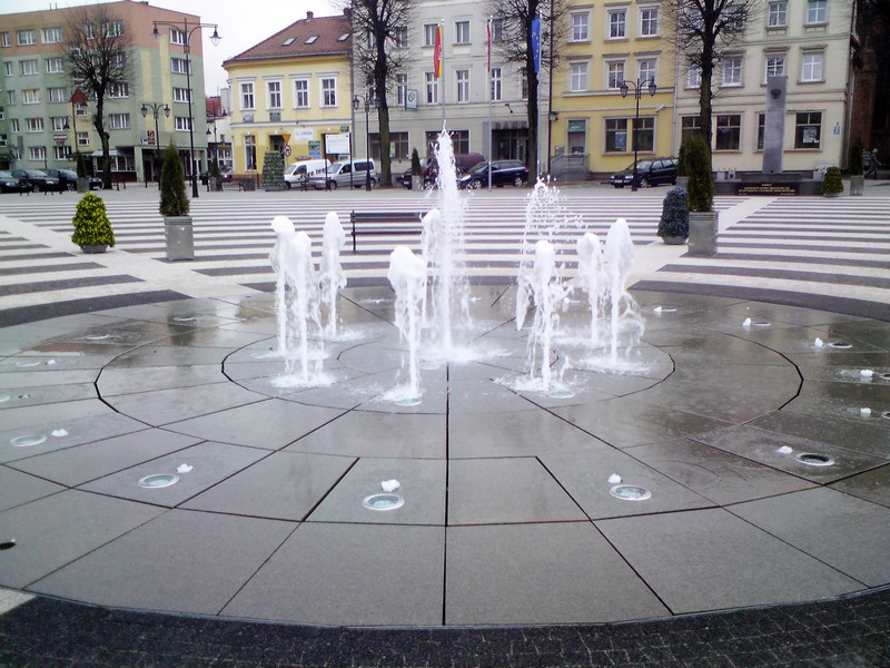 Fountain on market in Gryfice